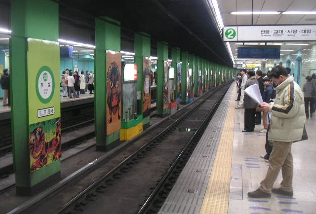 Seoul subway, station Jamsil (line 2)